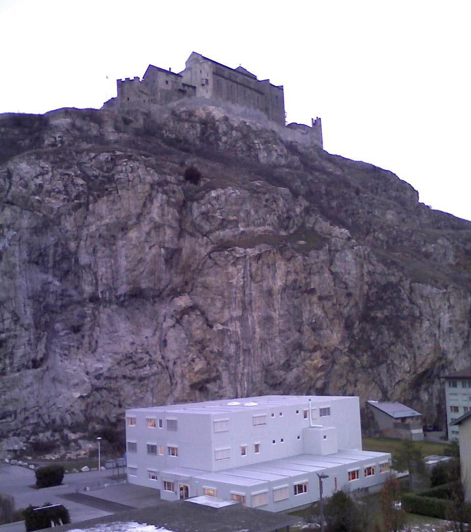 View of Sion